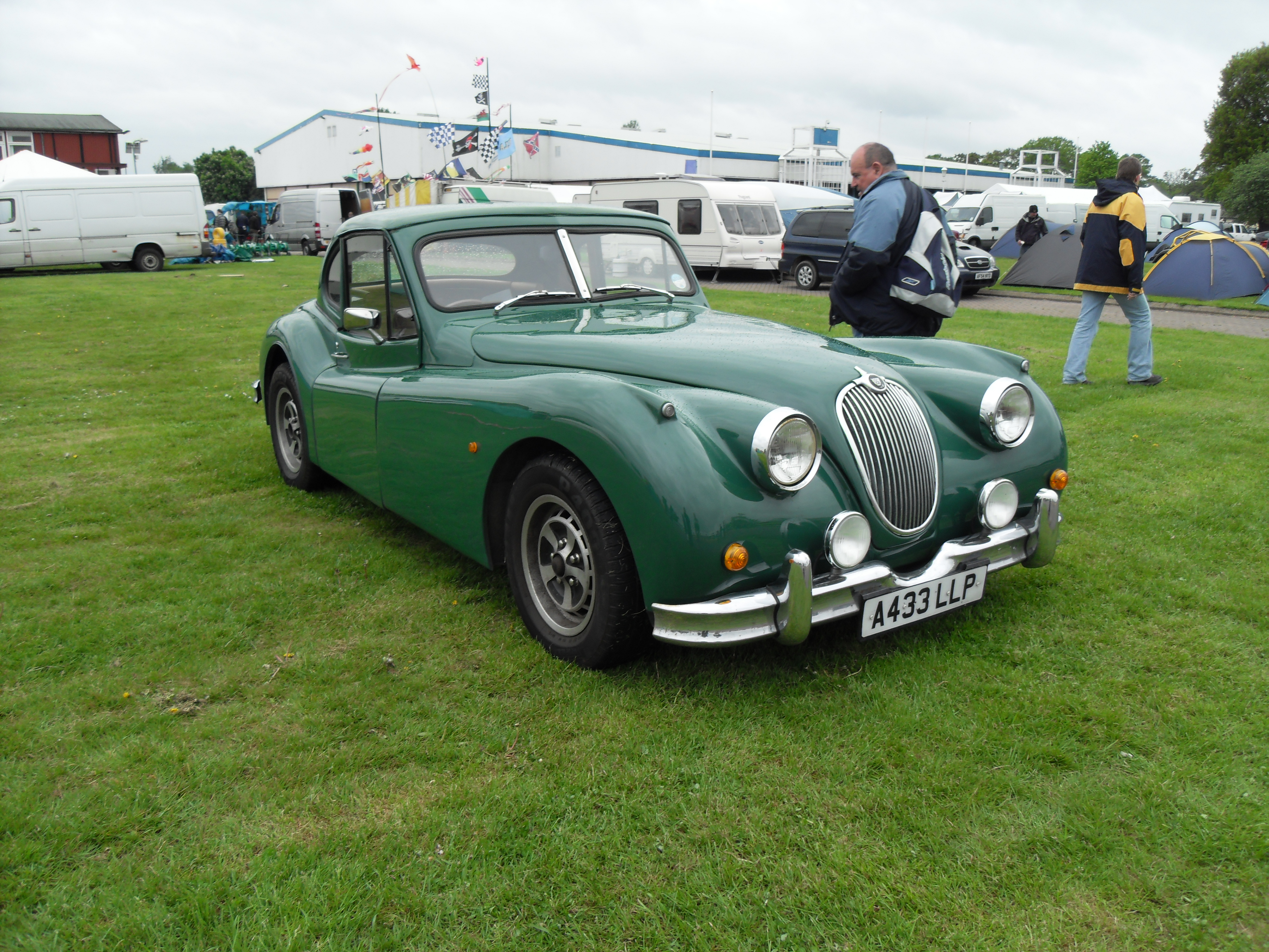 VLUU L310 W / Samsung L310 W taken at The National Kit Car Show Stoneleigh 2009